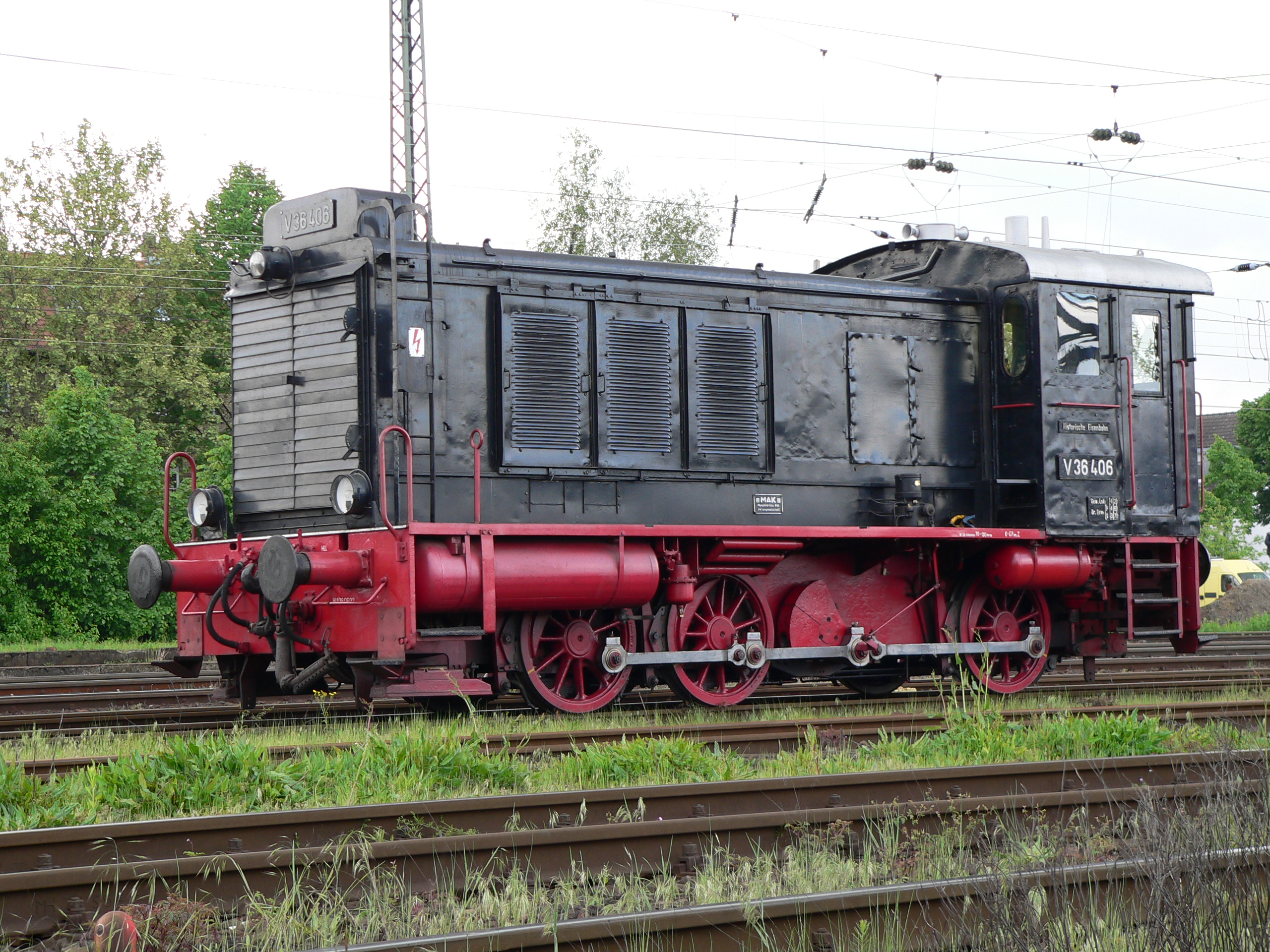 Diesel locomotive german class V36